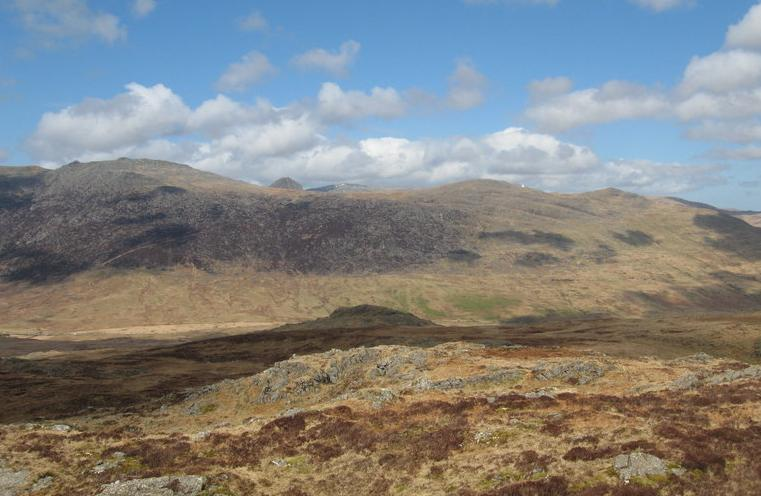 View of Y Foel Goch, a mountain in Snowdonia, north-west Wales-Glyder Fach, Y Foel Goch and Gallt yr Ogof from Moel Siabod